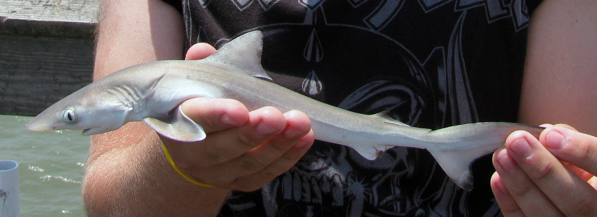 A picture of a juvenille dusky shark caught off the Ocean Isle Beach pier